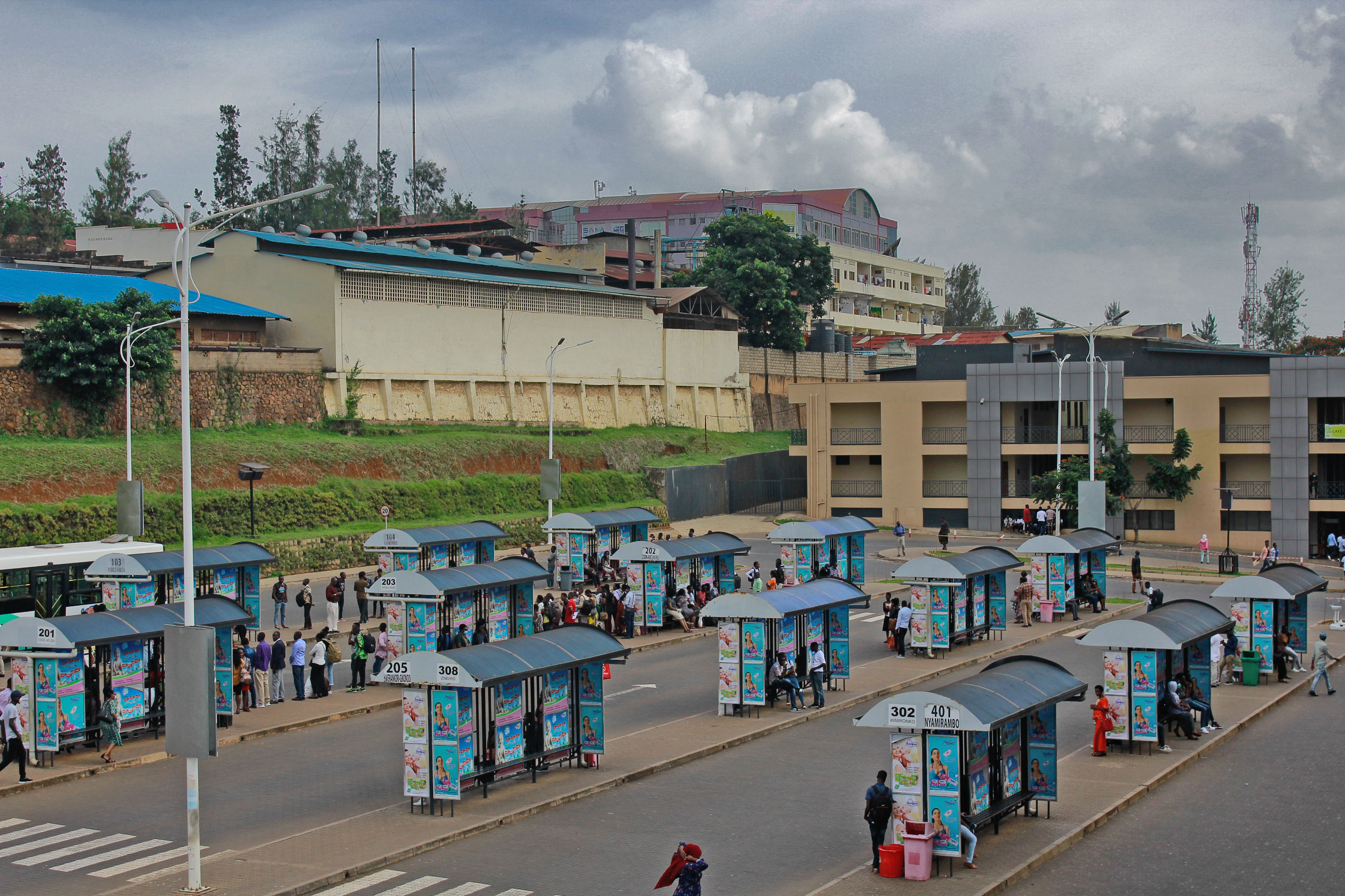 A bus station This is an image with the theme "Africa on the Move or Transport" from: Rwanda